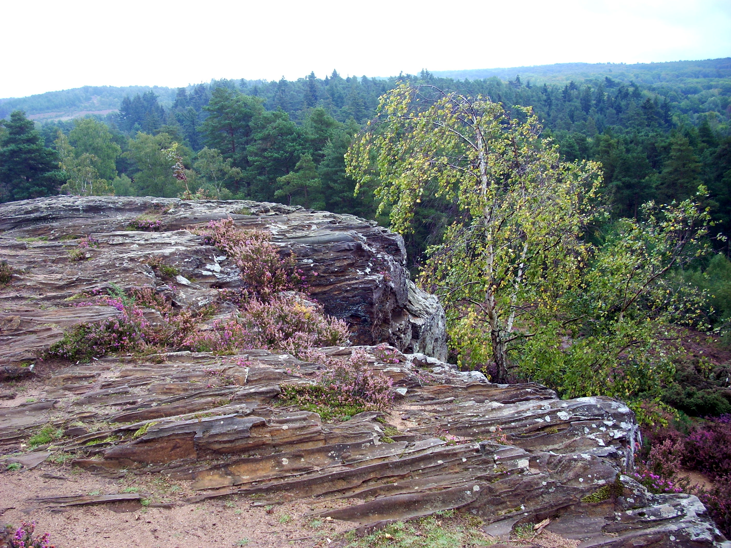 Sandstone outcrop upon the easternmost of the Devil's Jumps at Churt, Surrey.